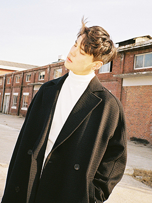 DEAN, Joombas Music Group artist.